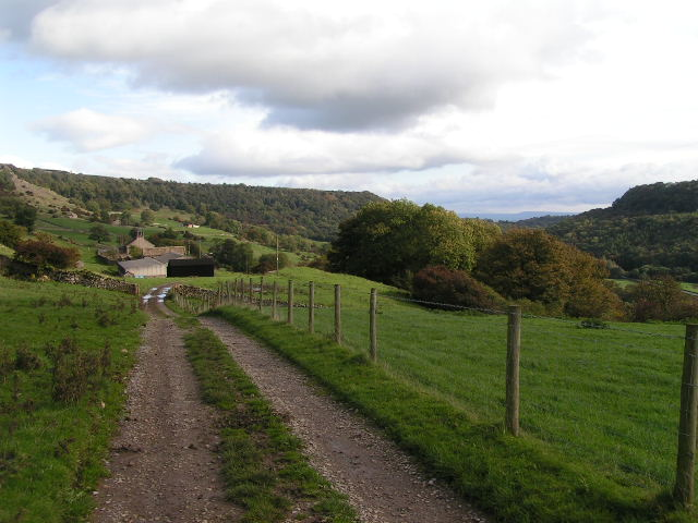 West Applegarth Farm On the Coast-to-Coast path bound for Richmond.